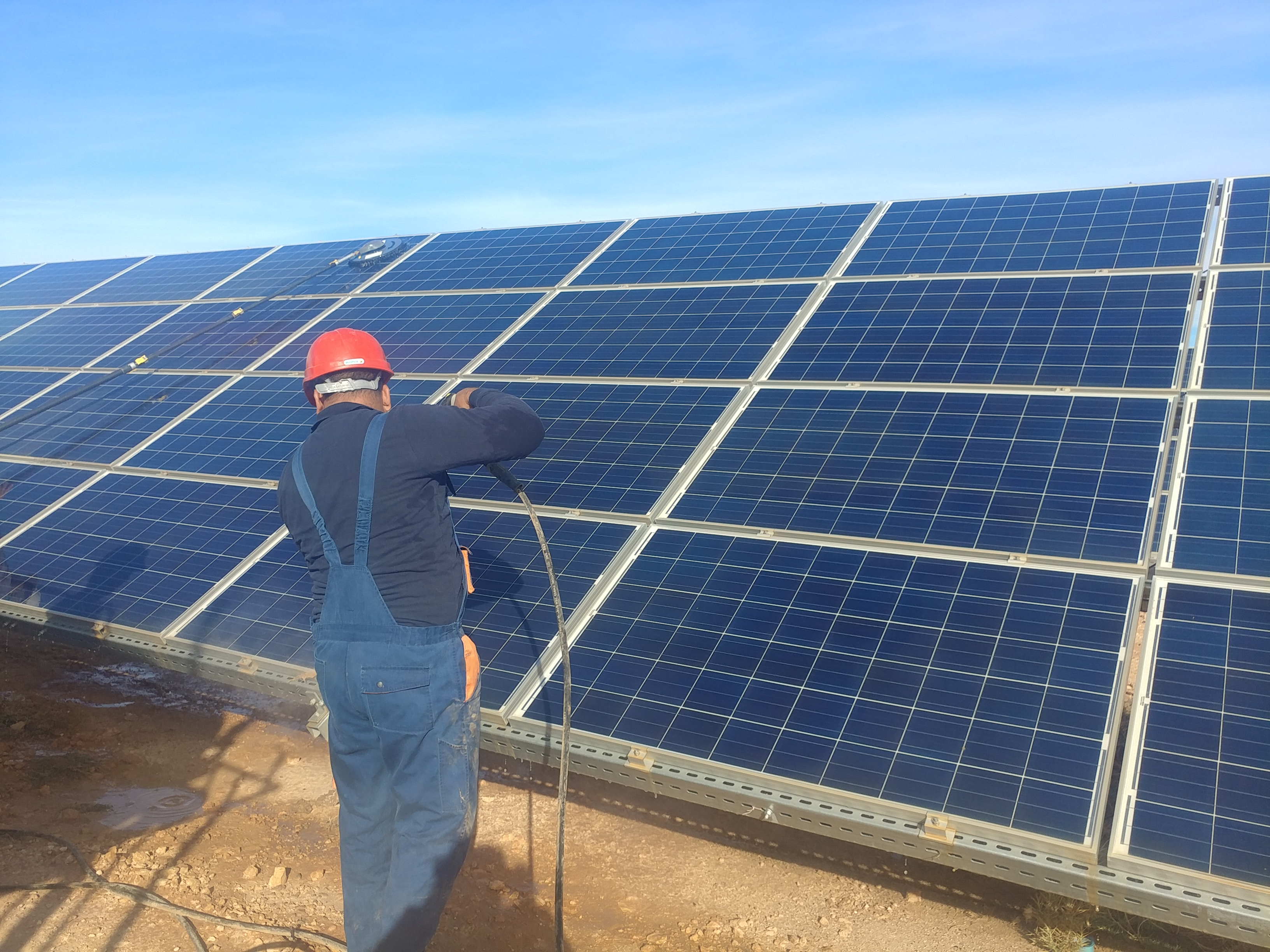 عملية تنظيف الألواح الشمسية